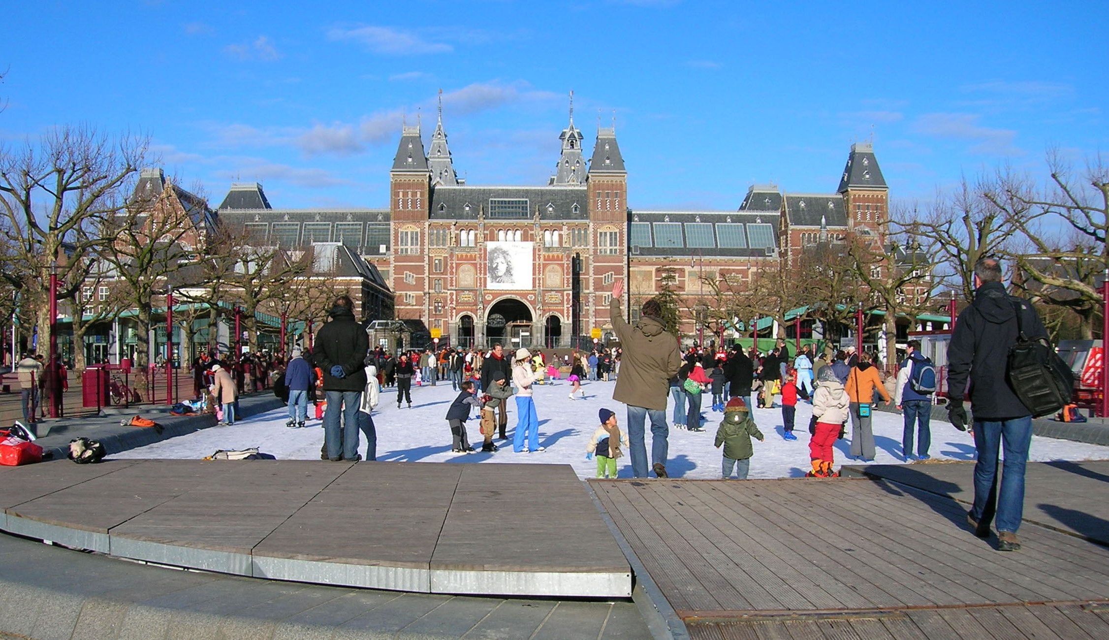 Museumplein (Museum Square) in Amsterdam. Haveing fun ice skating in front of the rear of the Rijksmuseum in Amsterdam (the Netherlands).